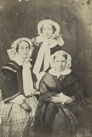 Прасковья Ильинична Врангель, ур. Яковкина (1794—1858) с дочерьми Анной (1815—1863) и Екатериной (1820—1895)